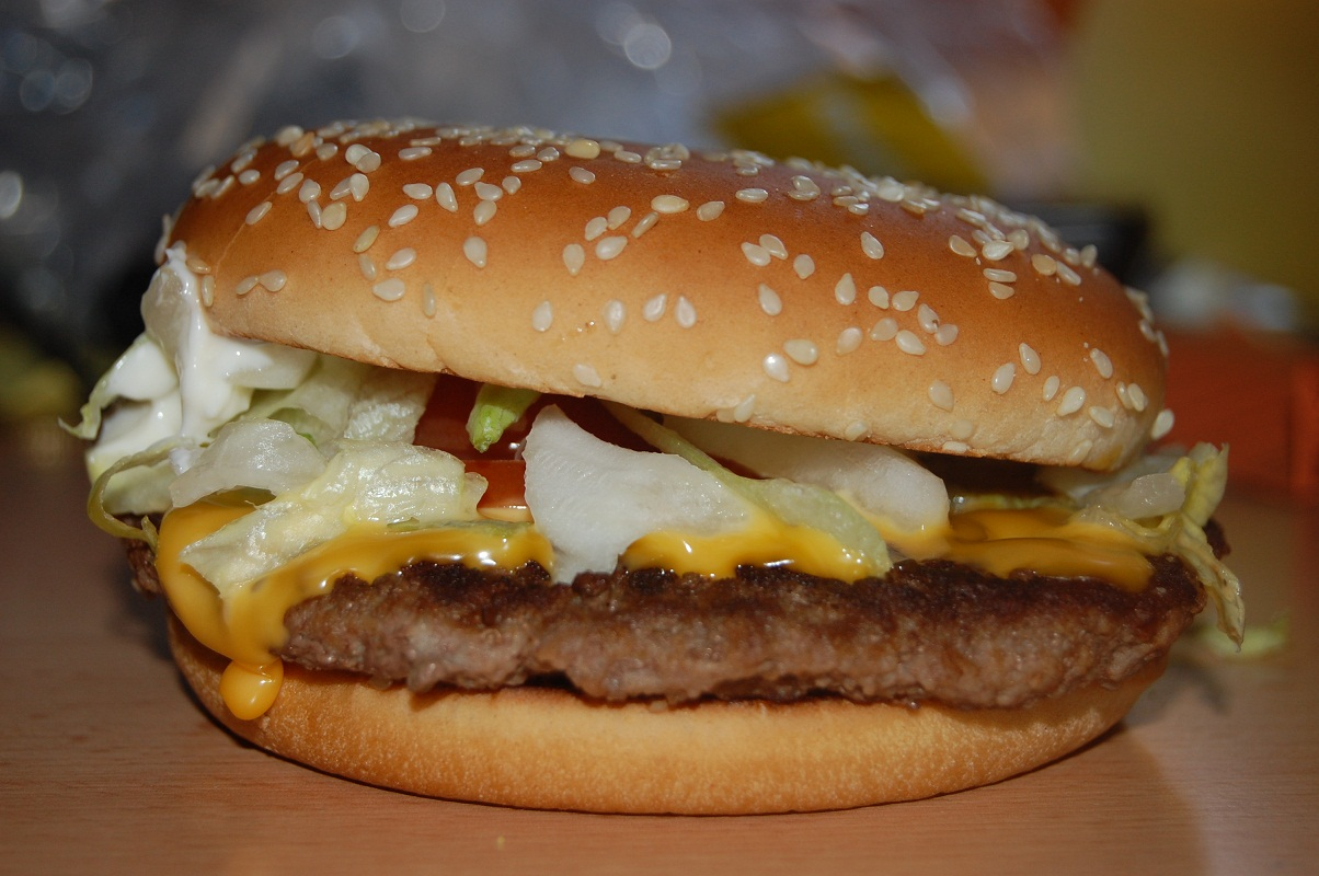 Hamburger Royal TS (quarterpounder with tomatoes, lettuce and a white sauce), bought at McDonald's in Germany.